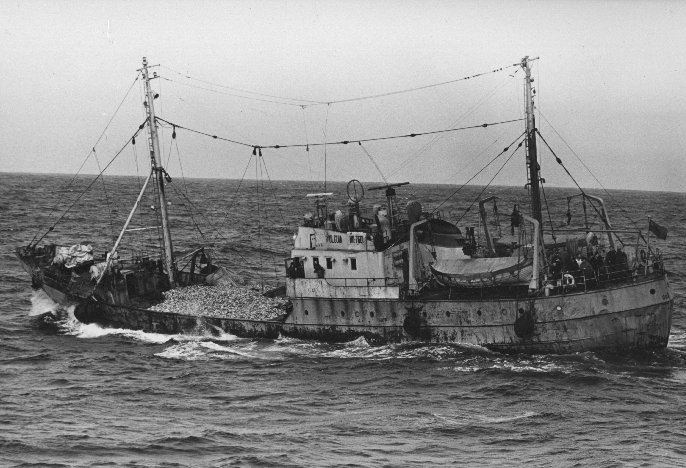 A Soviet trawler loaded with perch caught in the Pacific Ocean plies waters off America’s West coast.